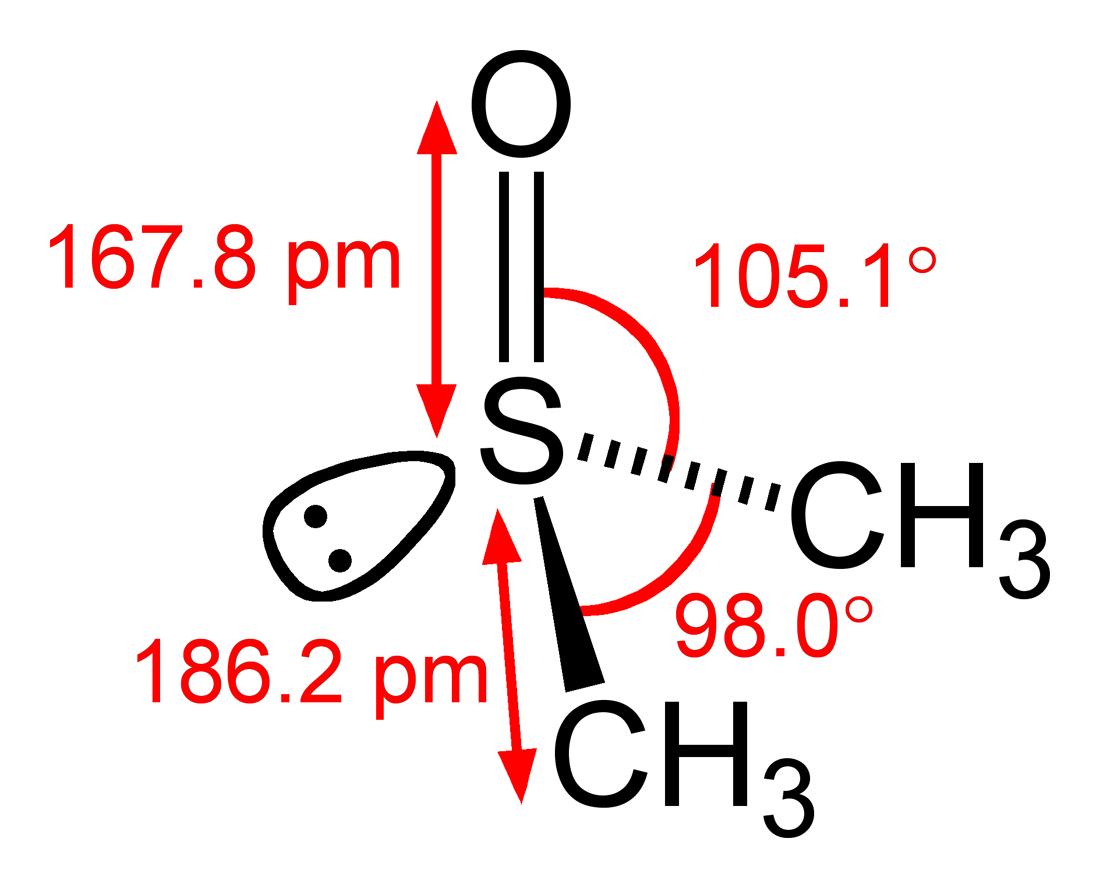 Structural diagram of the dimethyl sulfoxide molecule